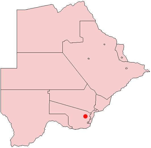 Kang, Botswana Location Map; created with the GIMP. Made by User:Acntx.